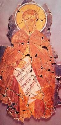 Akakiy of Sinay